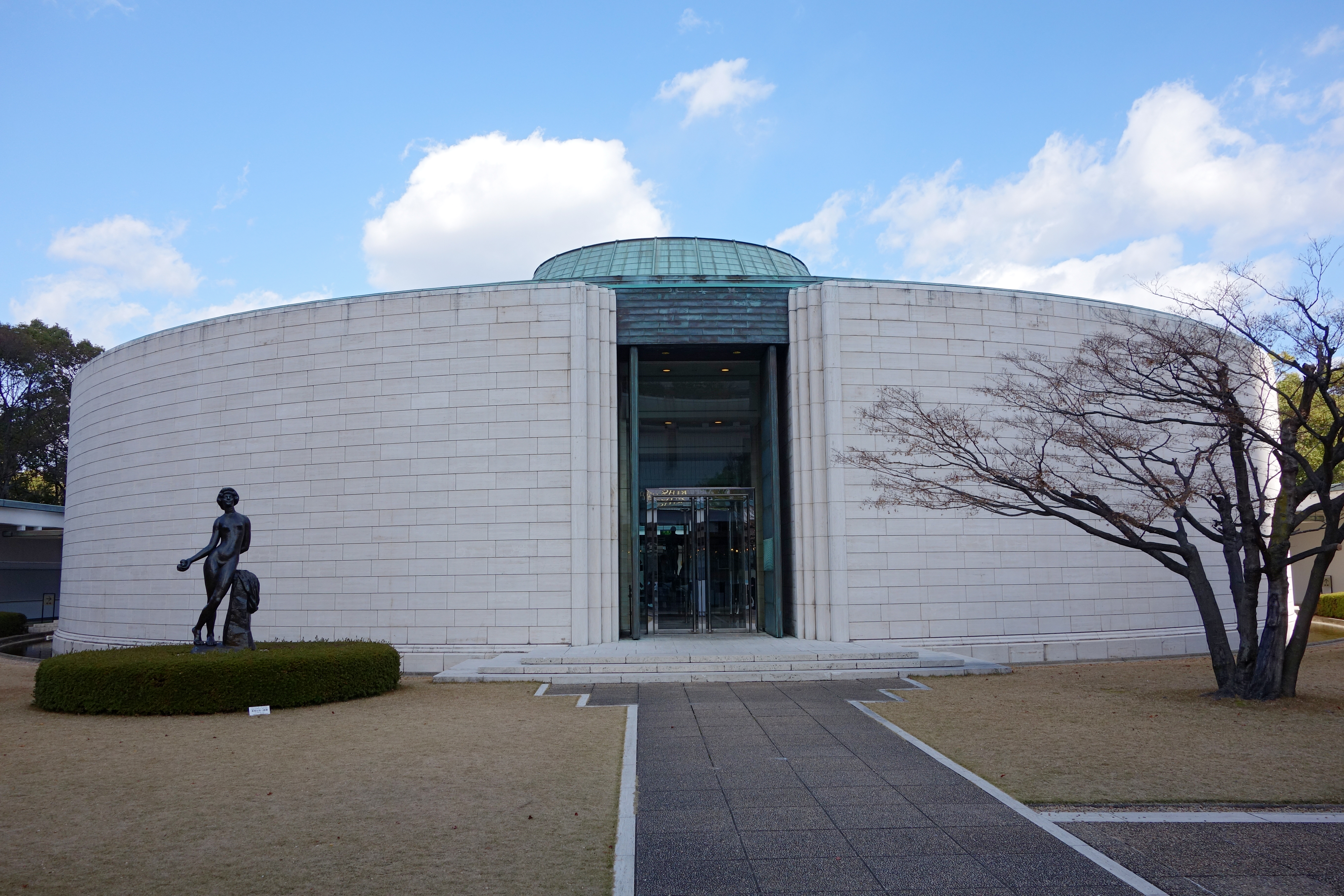 Hiroshima Museum of Art (ひろしま美術館), Hiroshima, Hiroshima prefecture, Japan